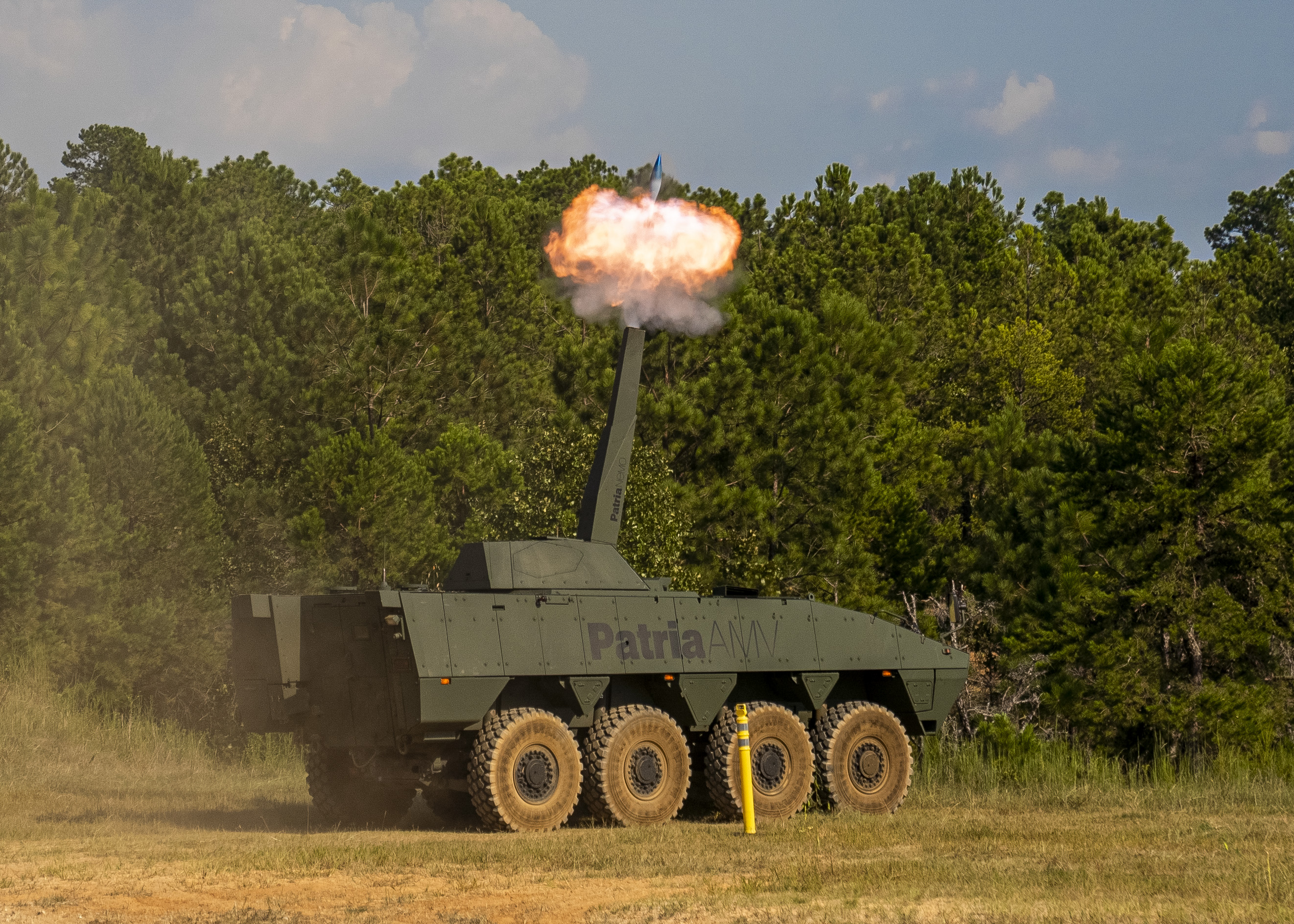 (FORT BENNING, Ga) Spectators gather to watch the Patria Nemo 120mm mortar turret demonstration Sept 11, 2019 at Red Cloud Range on post. (U.S. Army photo by Patrick A. Albright, Fort Benning Maneuver Center of Excellence photographer)